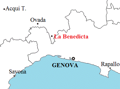 Position of former Abbazia della Benedicta (Benedicta Abbey), Bosio, Piedmont (AL)